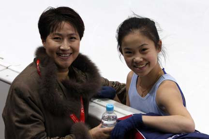 Caroline Zhang and her coach Li Mingzhu during practice at the 2007-2008 ISU Grand Prix of Figure Skating Final. Zhang placed fourth at this competition.